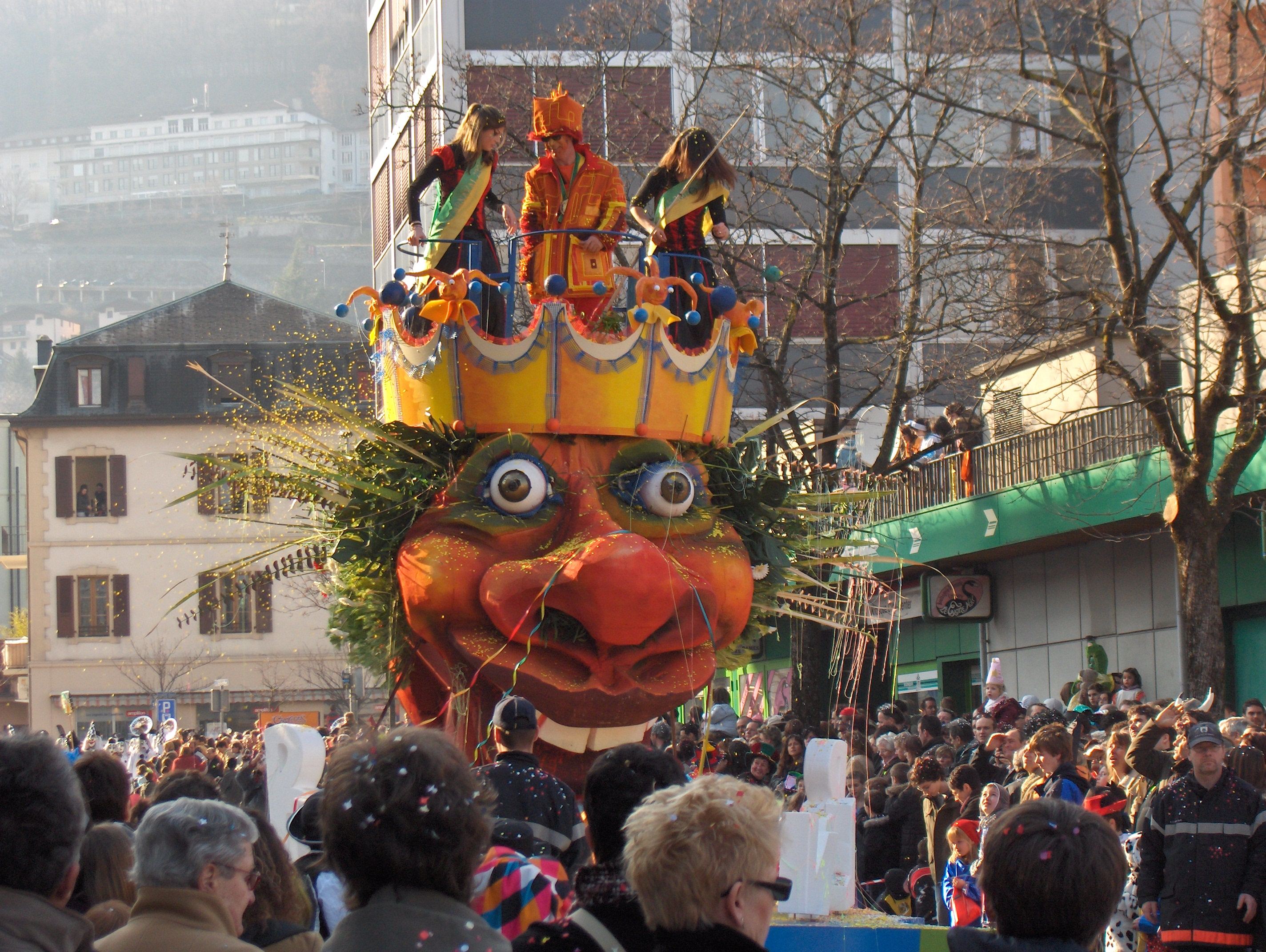 Carnaval of Monthey (Switzerland) - Feb. 2007